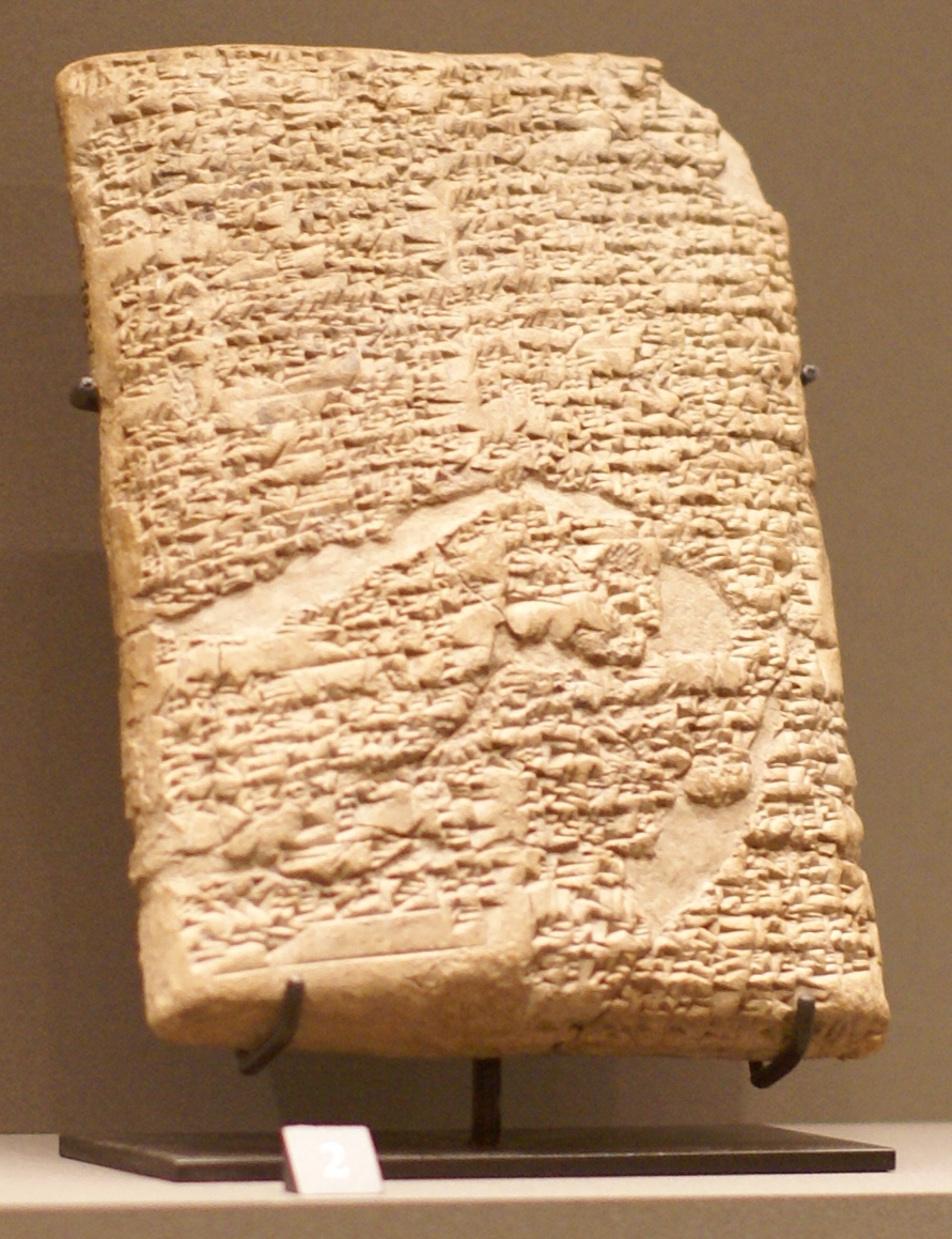 tablet with prologue of the "Code of Hammurapi", Louvre, AO10237